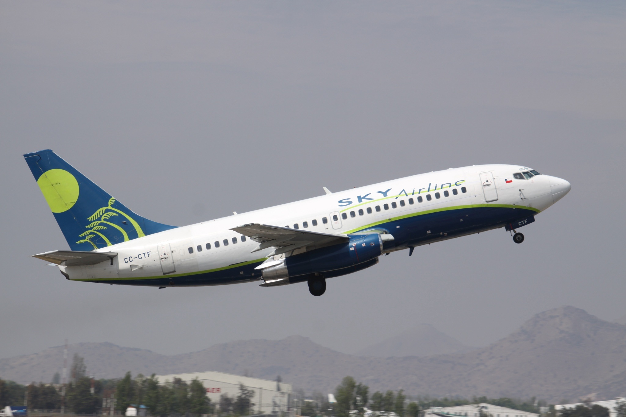 At Santiago